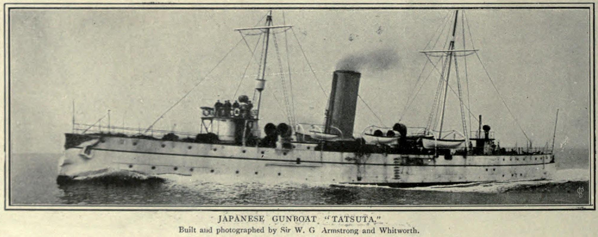 Japanese aviso / small cruiser Tatsuta